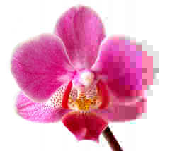 A picture of a flower (Phalaenopsis_(aka).jpg by André Karwath) compressed with successively higher loss JPEG compression ratios from left to right by SWFlash.